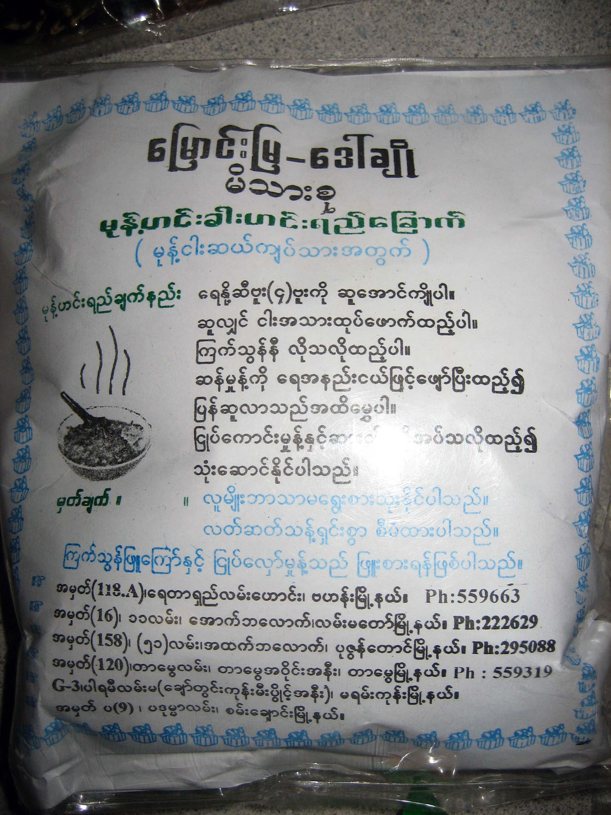 Ready-made mohinga powder